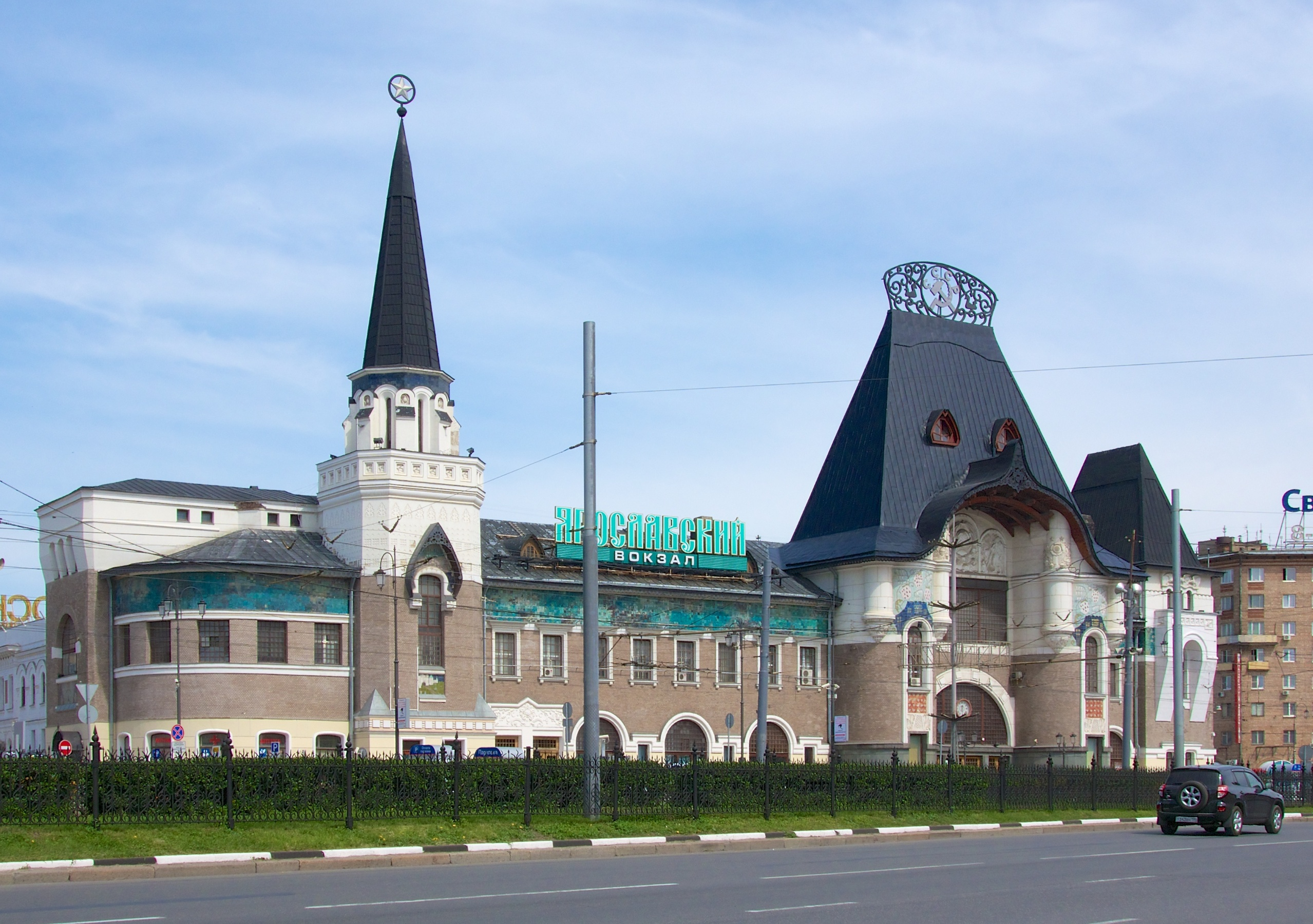 Yaroslavsky Train Terminal / Moscow, Russia